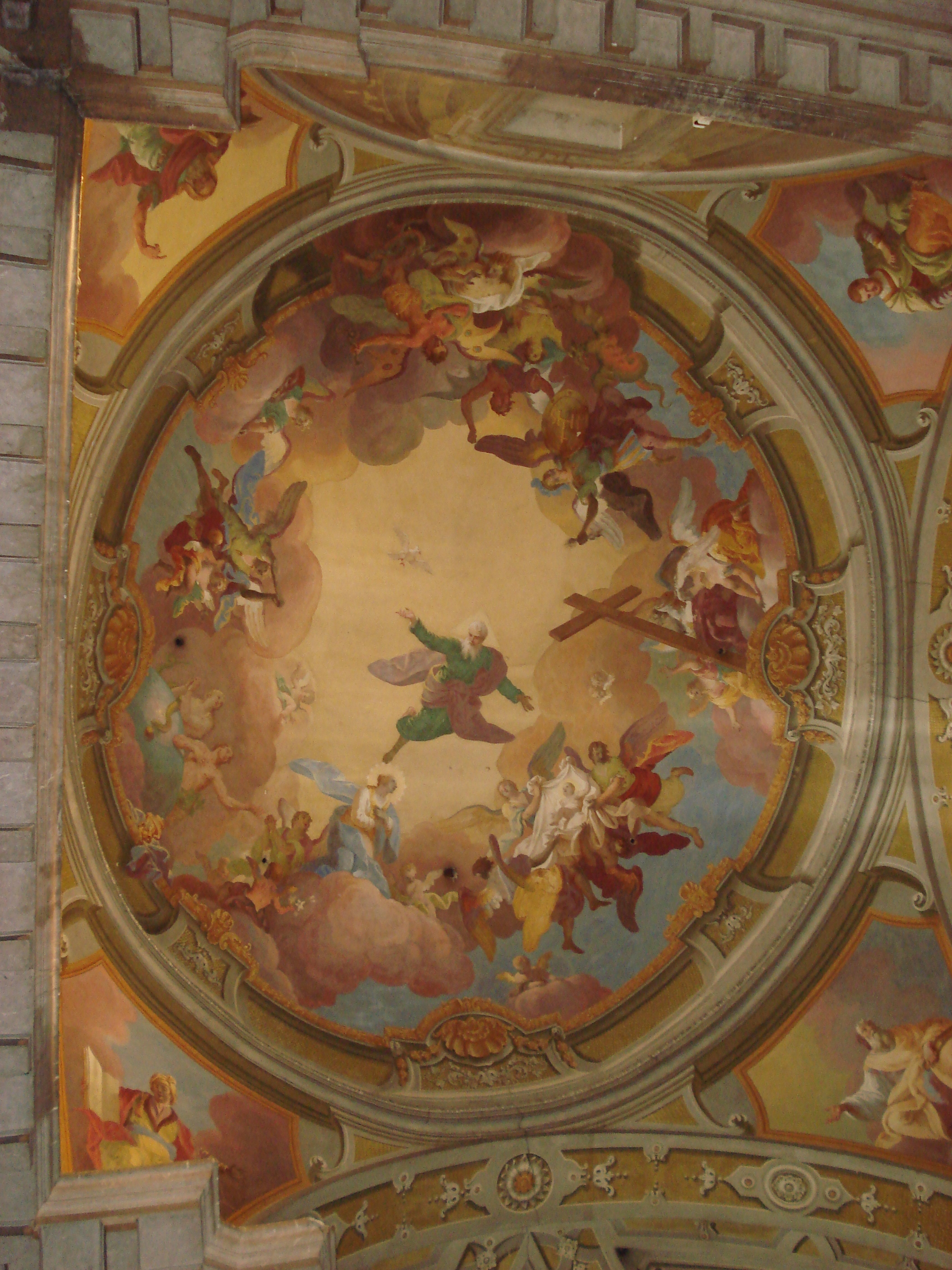 ceiling fresco